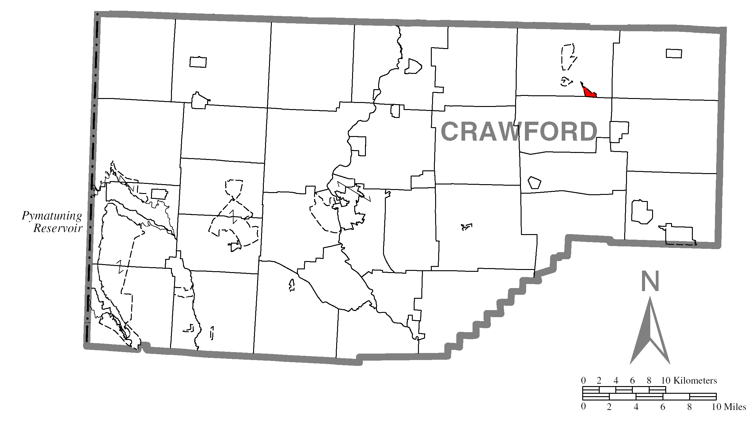 Map of Crawford County higlighting Riceville.